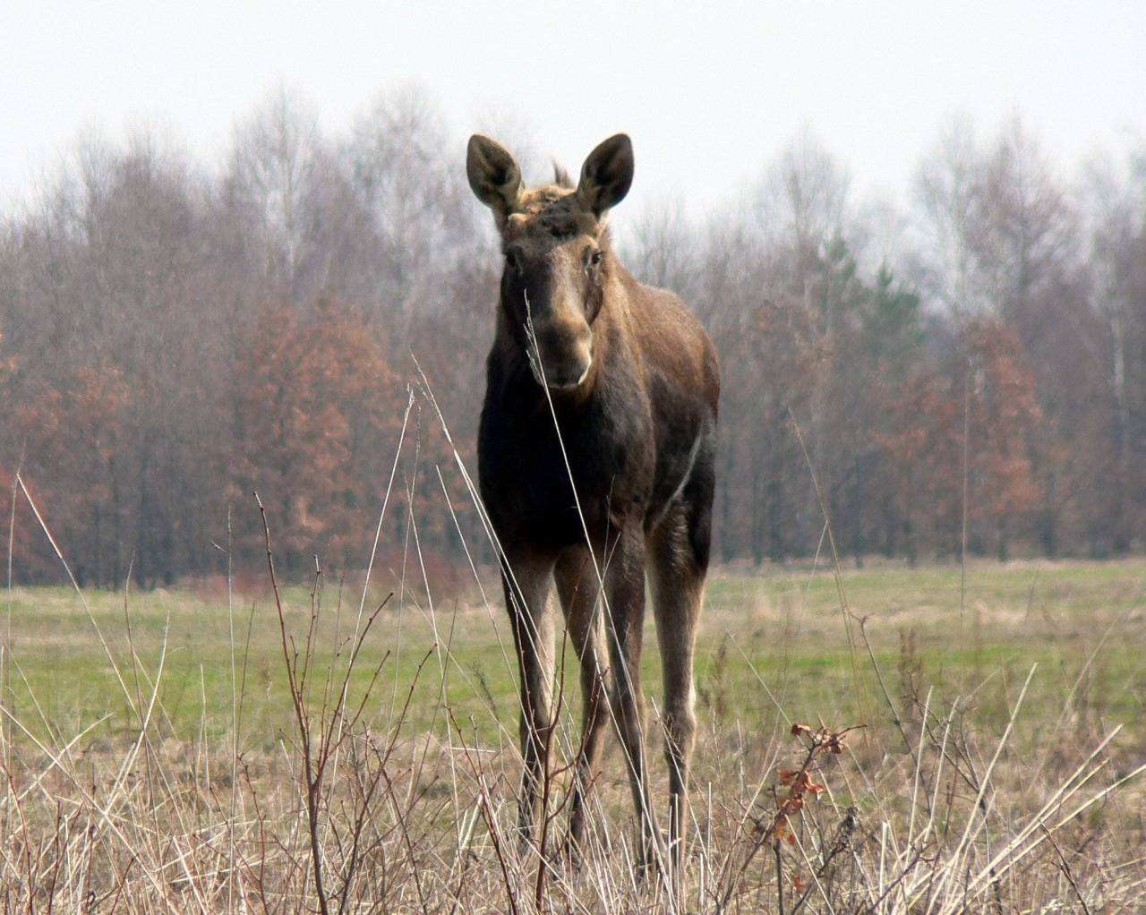 An Elk Alces alces in Kampinos National Park, Poland